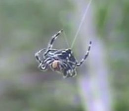 Caerostris darwini (in ventral view) using bridging silk. Note the sail-like terminus of the bridging silk.